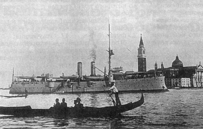 Канонерская лодка «Хивинец» в Венеции, 13 июля 1911 года